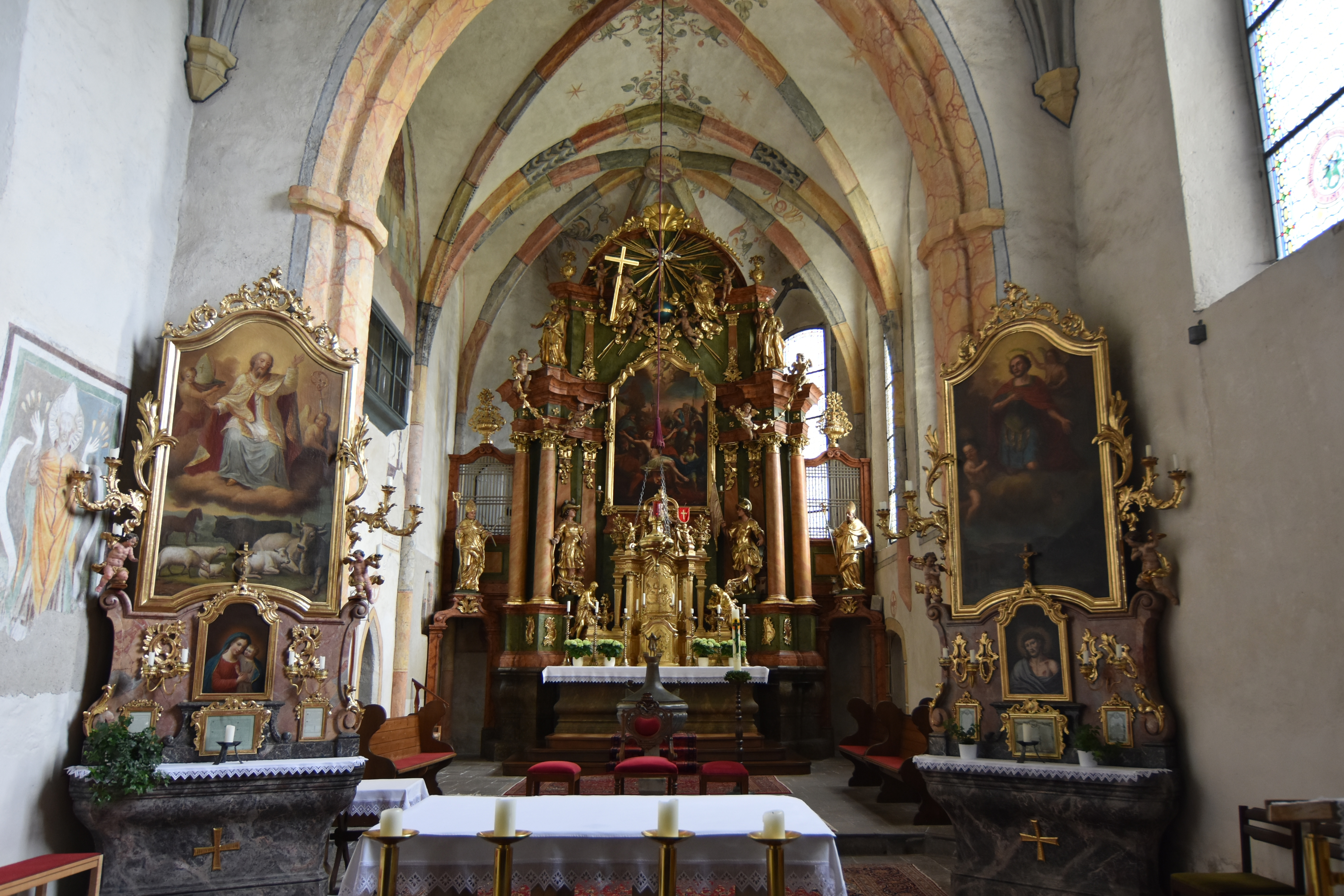 Church Kath. Pfarrkirche hl. Laurentius St. Lorenzen im Mürztal - Interior